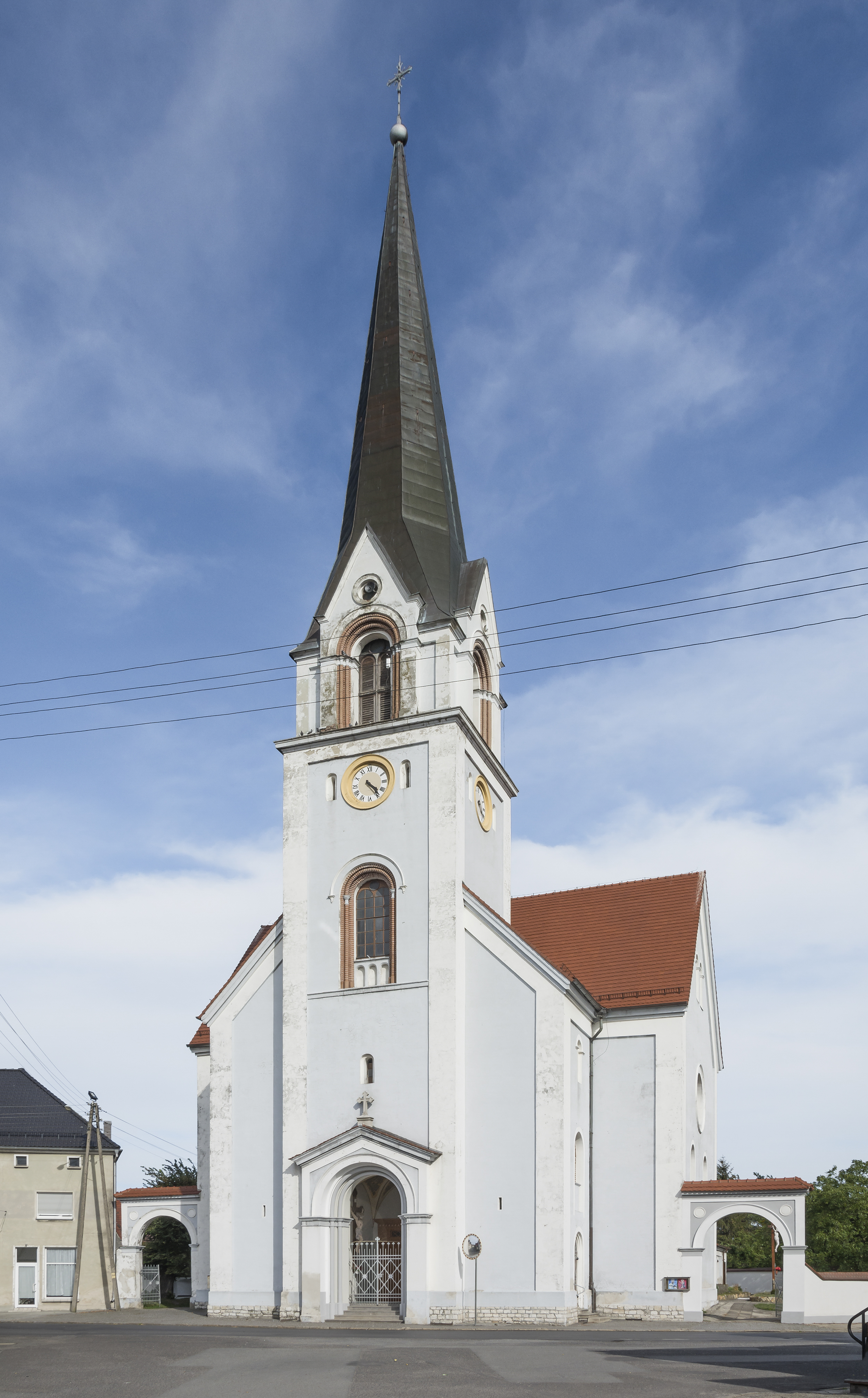 Church of the Visitation of the Blessed Virgin Mary in Łącznik 11.1948.